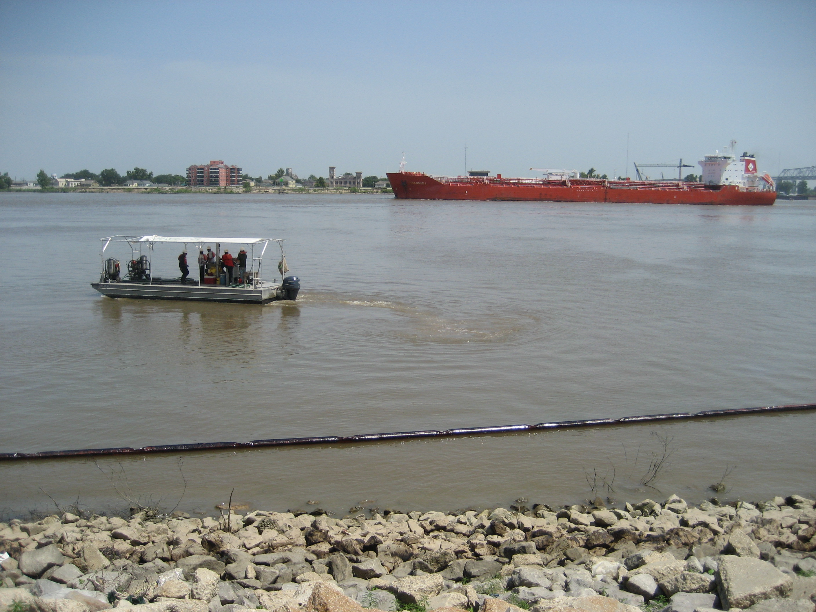 New Orleans: View of Mississippi River at French Quarter, looking across towards Algiers Point. Continuing cleanup in aftermath of barge accident a few days ago that spilled a large amoung of biodiesel, shutting off shipping for days. Seen are oil on rocks along foot of levee bature, floating boom in river, one of the small boats gathering blobs of floating oil. And the IOANNIS I one of the first ships allowed to travel this section of the river since the spill heading downriver. IMO Number: 9281580 MMSI Number: 212522000 Callsign: C4GA2 Length: 183 m Beam: 32 m